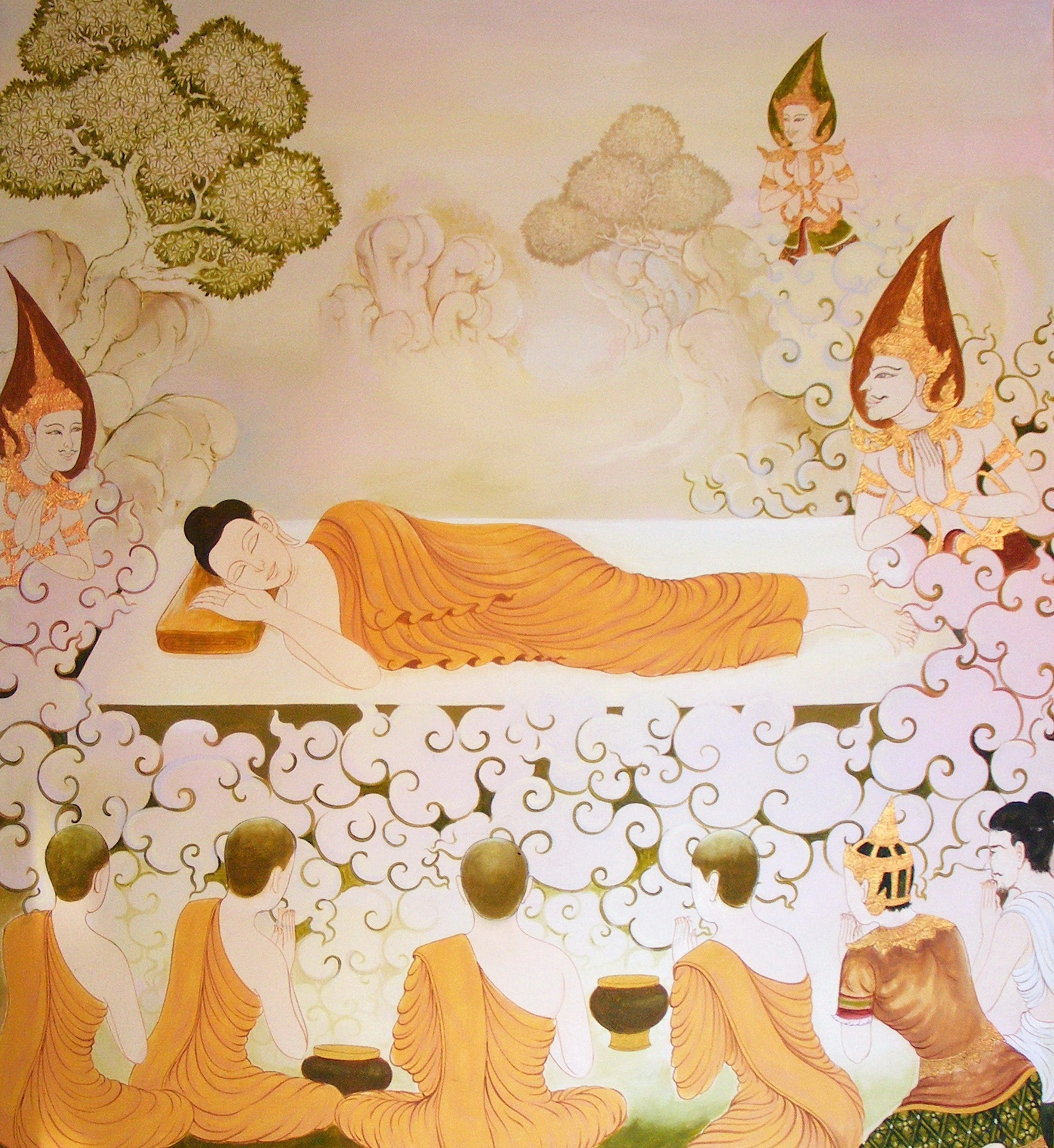 Wat Tha ThanonLocation: Wat Tha Thanon Mueang Uttaradit, Uttaradit Province, Thailand.